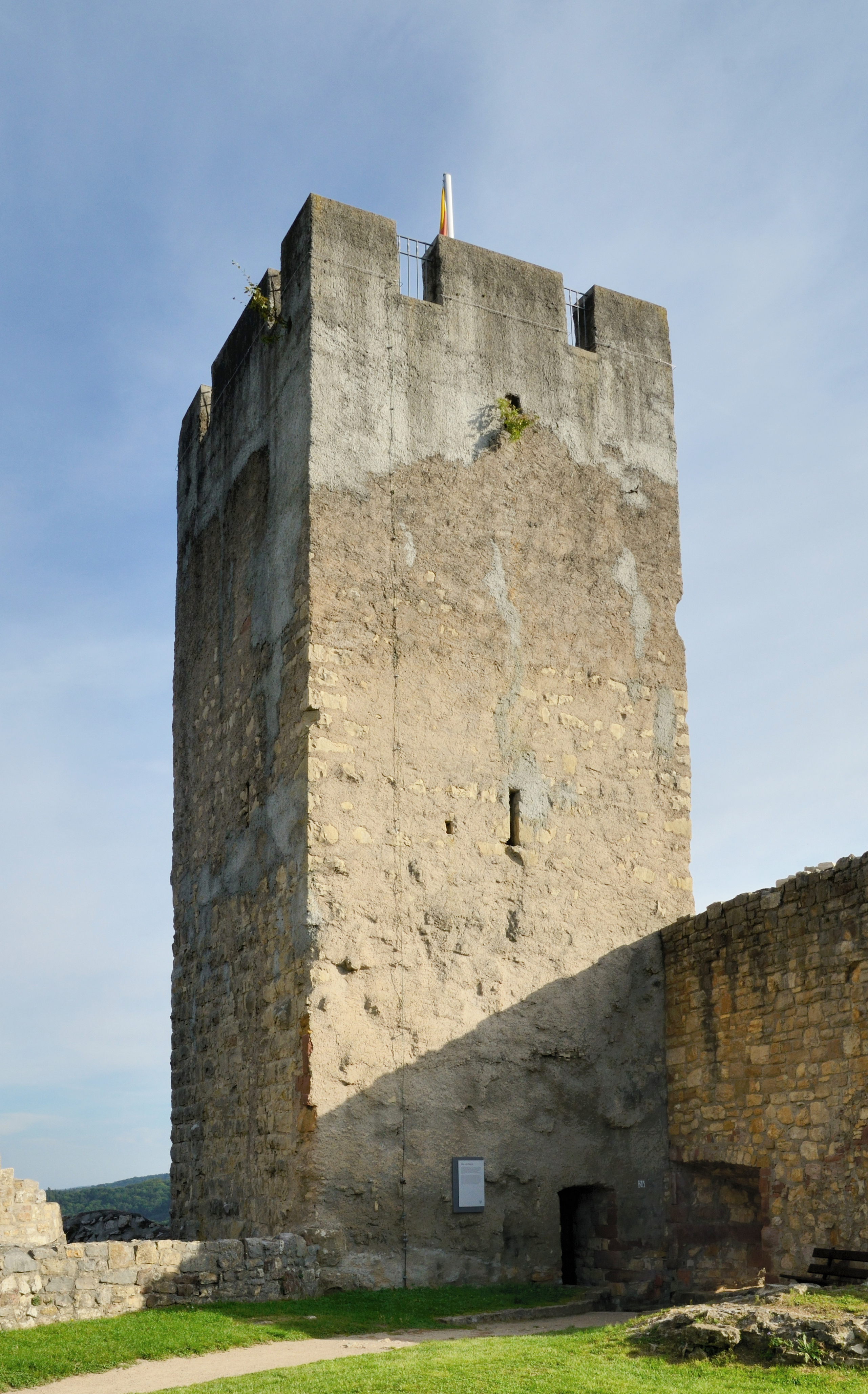 Rötteln Castle: gate tower